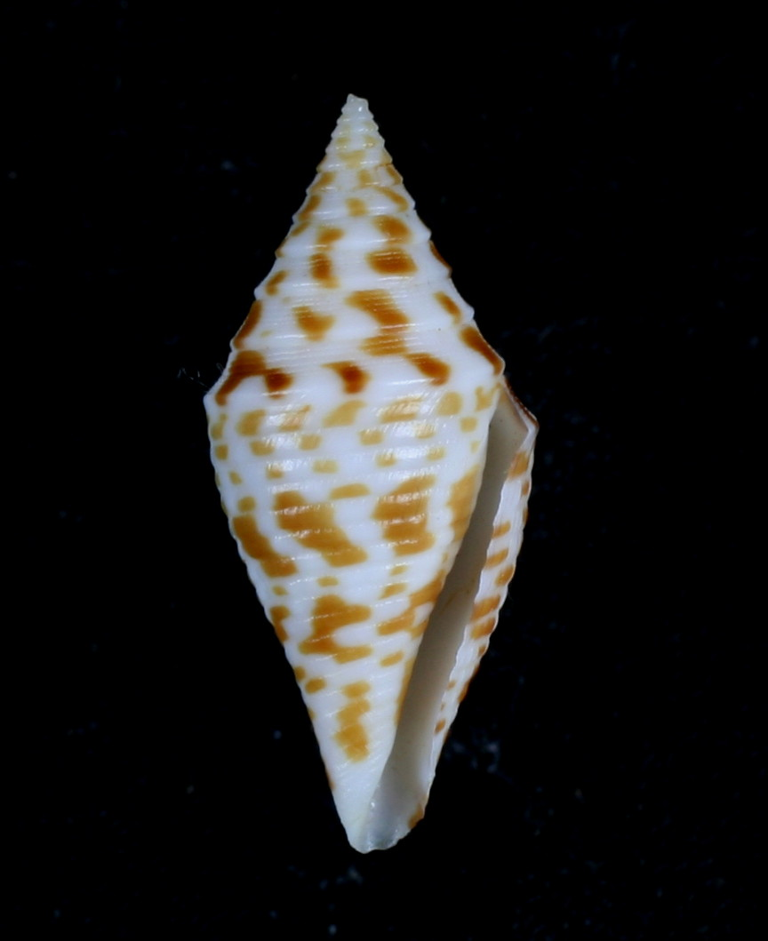 Conidae: Conus pracellens A. Adams, 1855